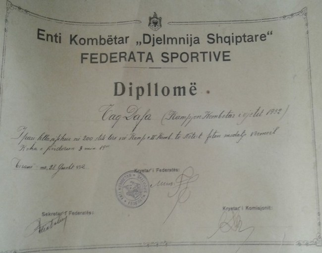 200 m viti 1932